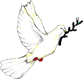 Based on Image:Peace dove.gif enhanced the edges and transparency.